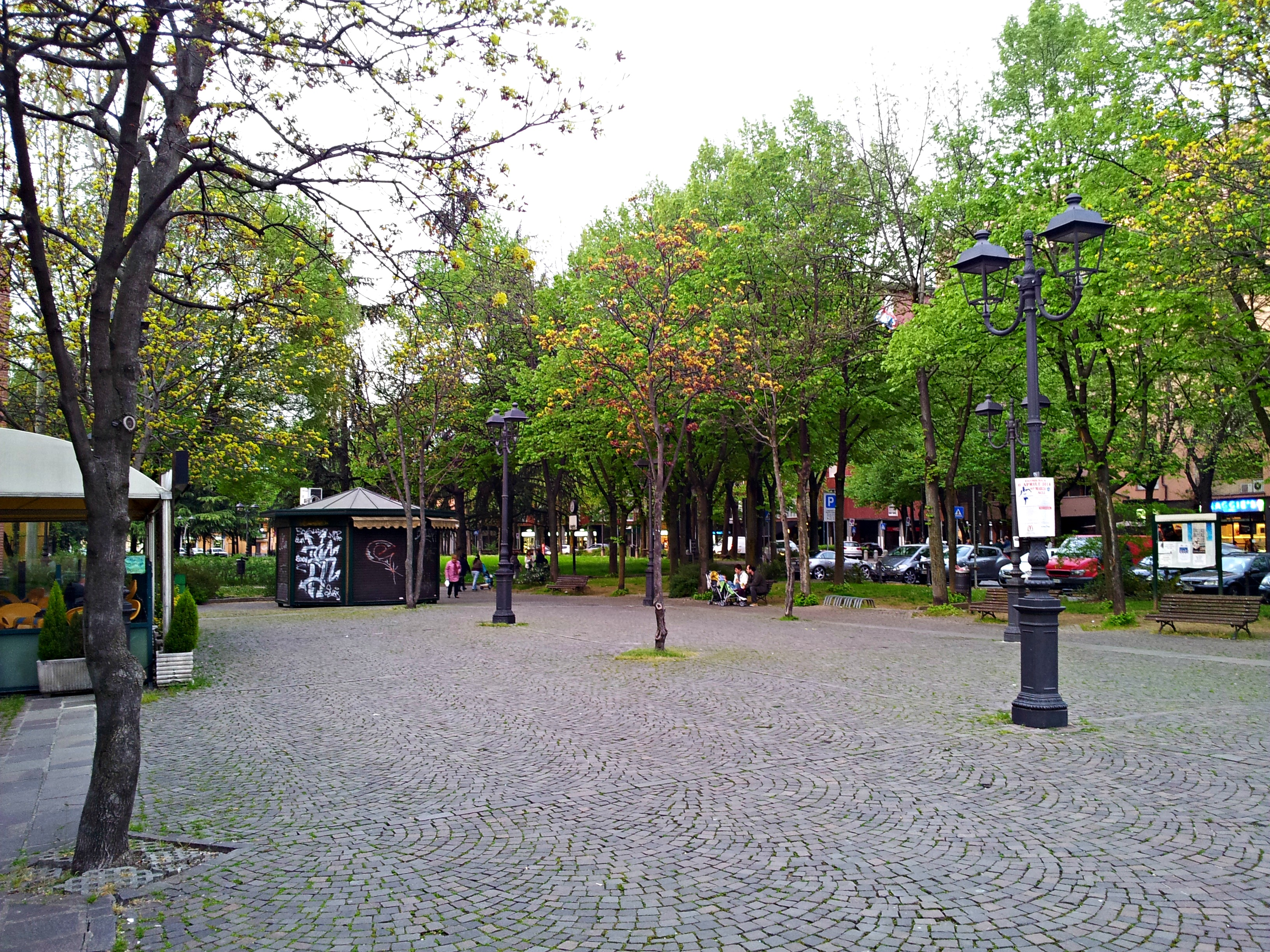 Cologno Monzese (Milan), town center. Mazzini Street.